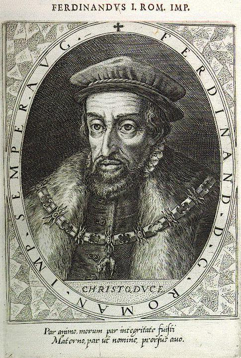 Ferdinand I., Holy Roman Emperor